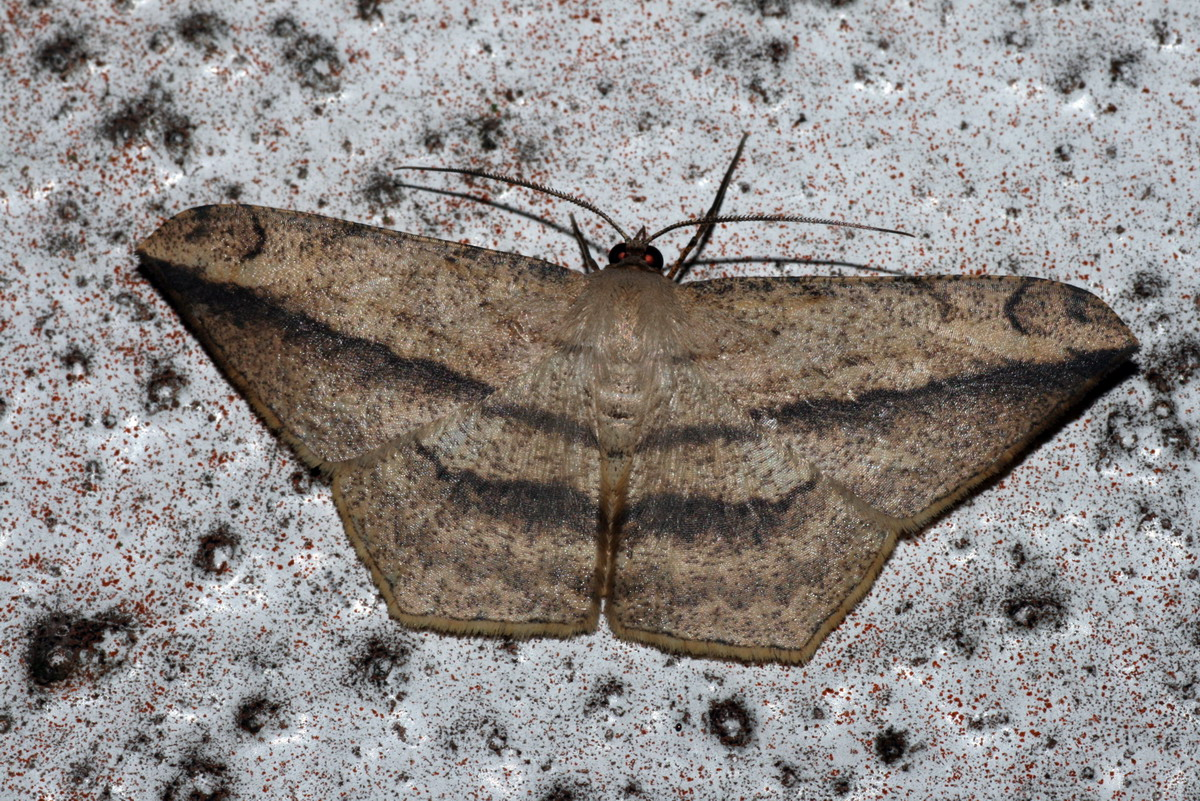 Malaysia, Fraser's Hill. March 2009